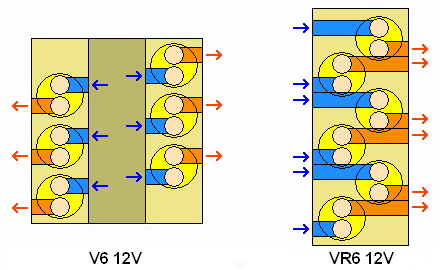 Schematic view of inlet (blue) and exhaust (red) ports, highlighting the differences between even port lengths on a conventional V6 engine, vs the unequal port lengths on the Volkswagen Group 12valve VR6 engine